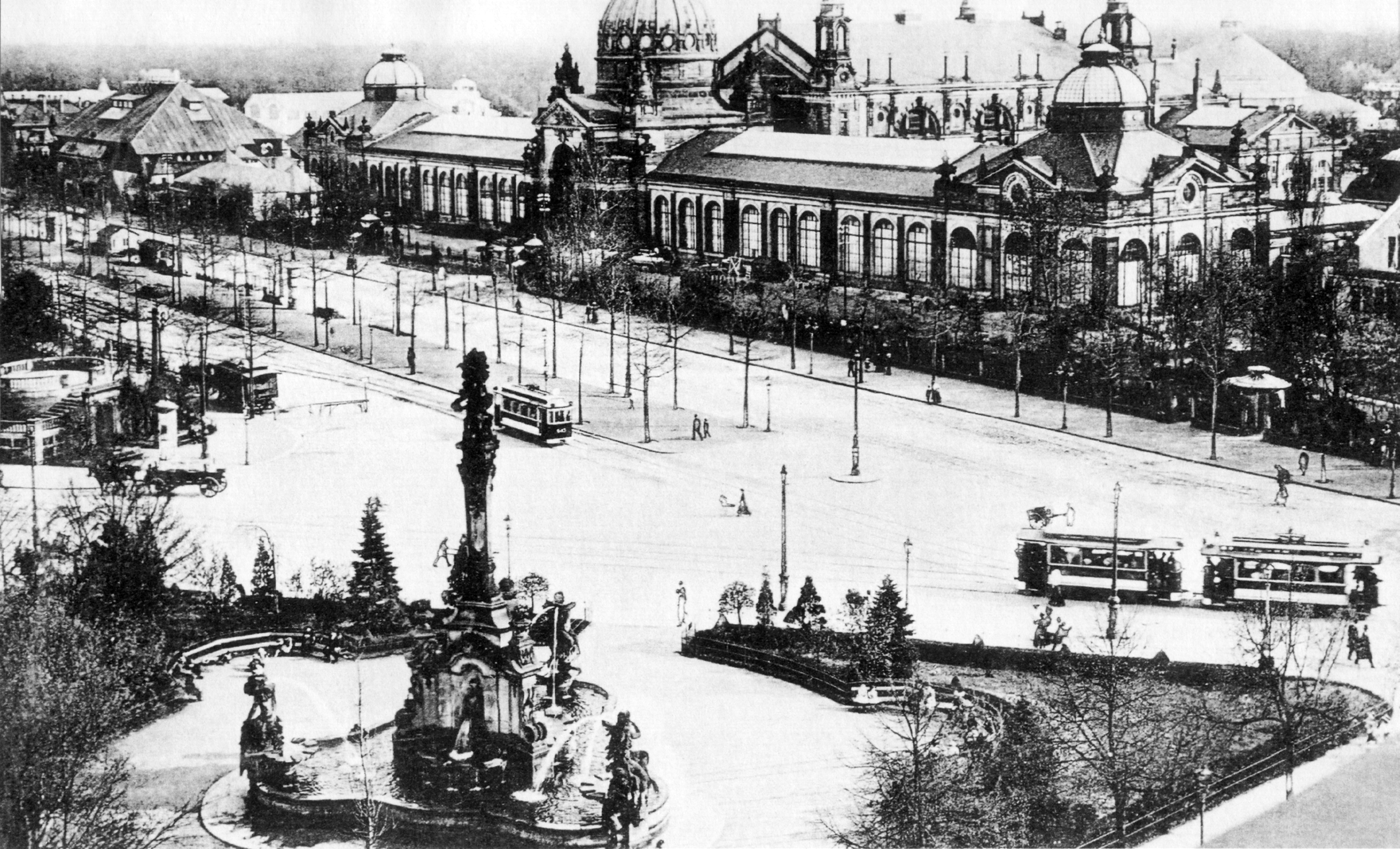 Dresden (Saxony, Germany) - Stübelallee and Exhibition palace, around 1910